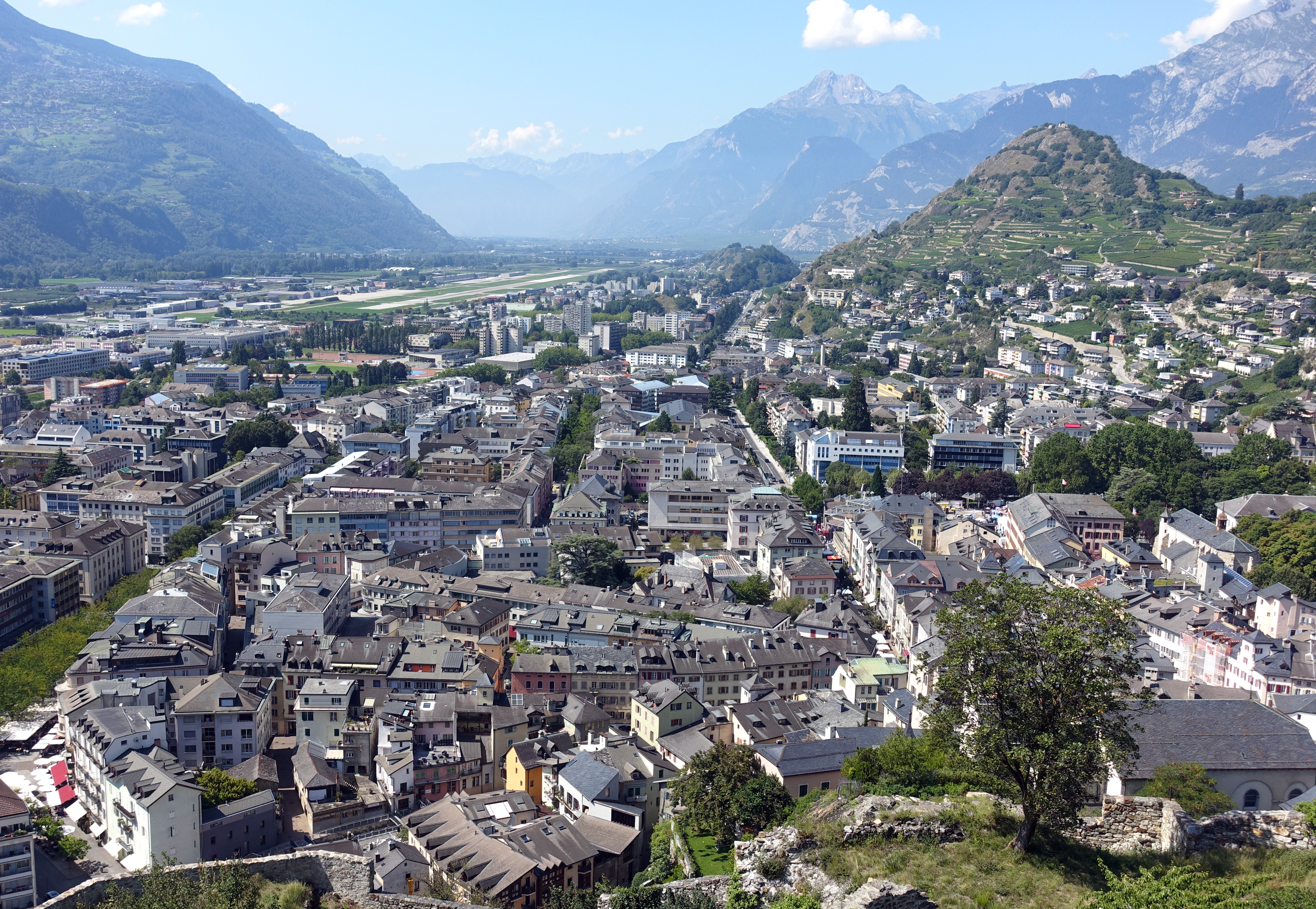 Sion, Switzerland.